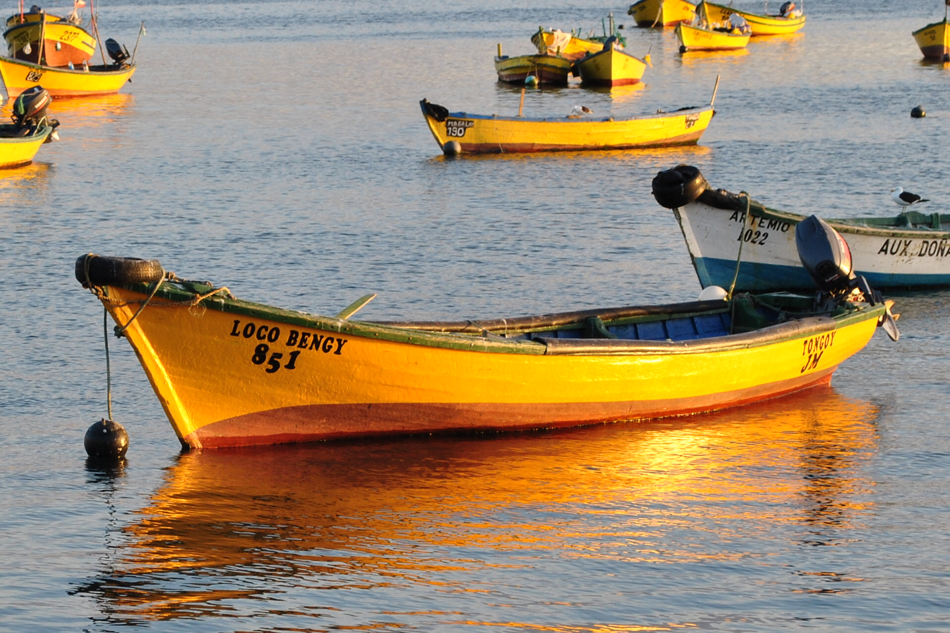 Caleta de Tongoy, IV Region, Chile.